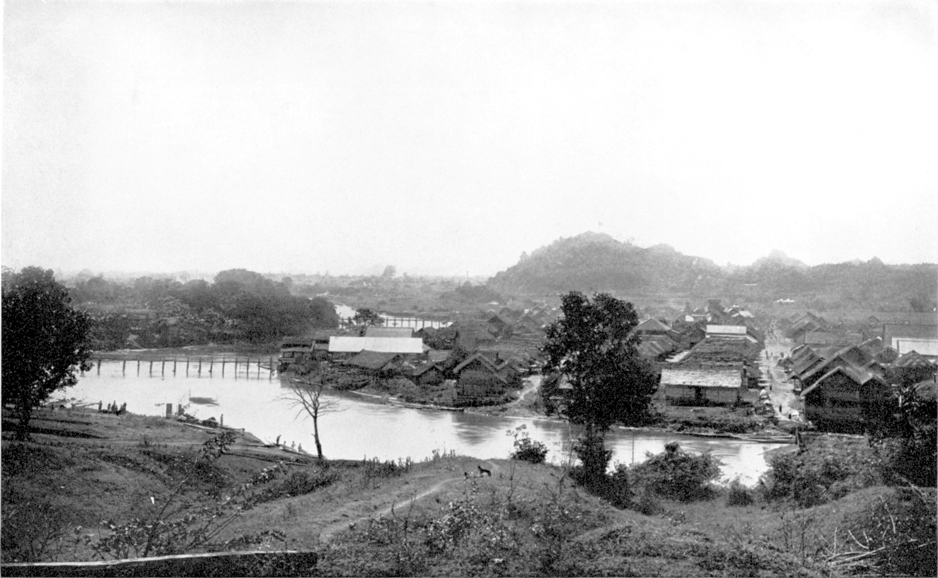 LOIKAW, THE HEADQUARTERS OF THE POLITICAL OFFICER IN CHARGE OF THE KAREN-NI STATES I BURMA Loikaw is in the only flat part of Karen-ni. Thirty years ago it numbered four huts. The headquarters of the American Baptist Mission to Hill Karens is located here. The bridges look flimsy, but are so substantial that elephants walk over them.